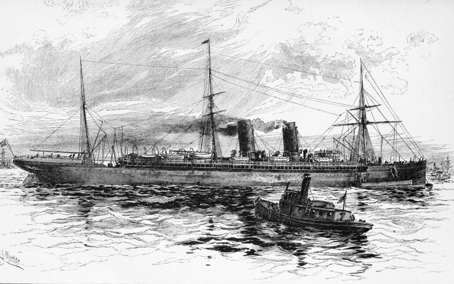 Illustration of RMS Estruria. Meeker 1891